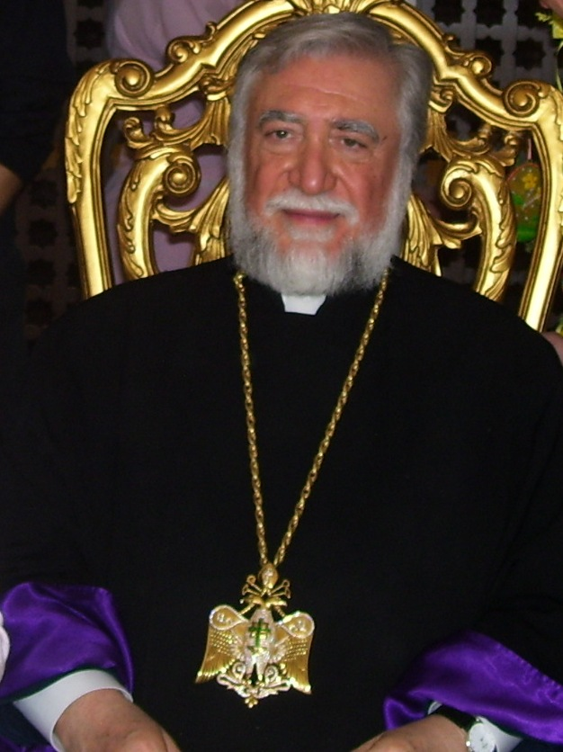 Aram I, Armenian Catholicos of Cilcia